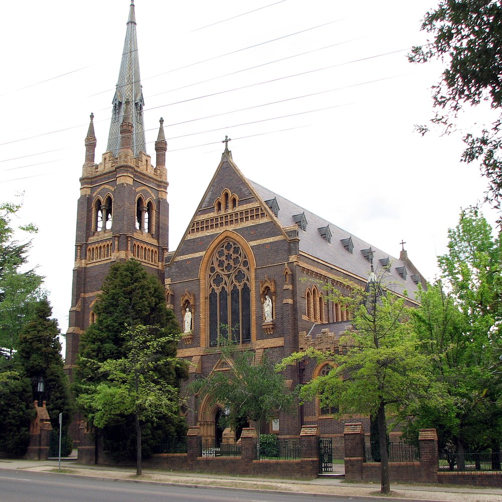 Cathedral in Armidale